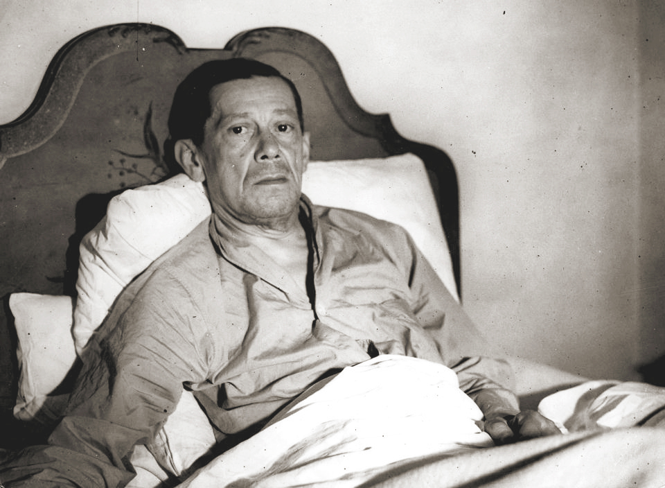 Photograph of Józef Retinger (1888–1960).